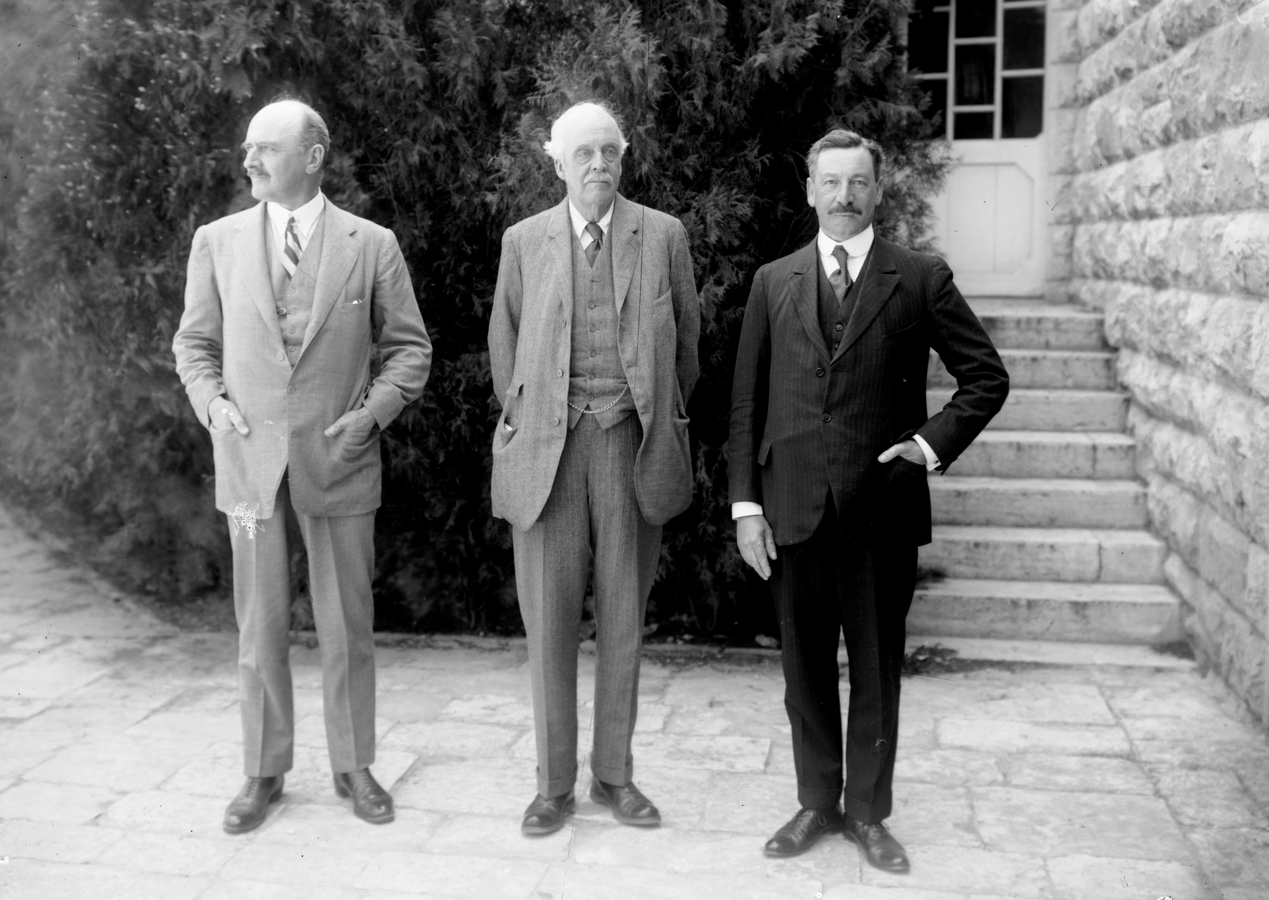 Lord Allenby, Lord Balfour and Sir Herbert Samuel in Augusta Victoria building 1925, before the opening of the Hebrew University